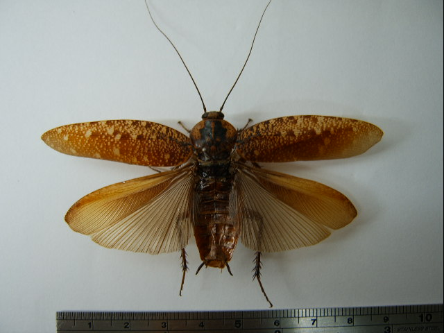 Kerry took this picture at his house on 7 July 2007 Scientific name: Rhabdoblatta karnyi Date of collection: Spring 2002 Place of collection: Taipei city, Taiwan